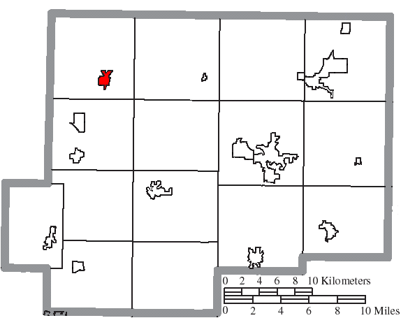 Map of the municipal and township boundaries of Putnam County, Ohio, United States, as of the 2000 census, with the location of the village of Continental highlighted. Township borders are shown only in unincorporated areas in order to differentiate incorporated and unincorporated areas more clearly.